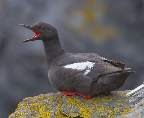 Pigeon Guillemot from Kodiak, Alaska